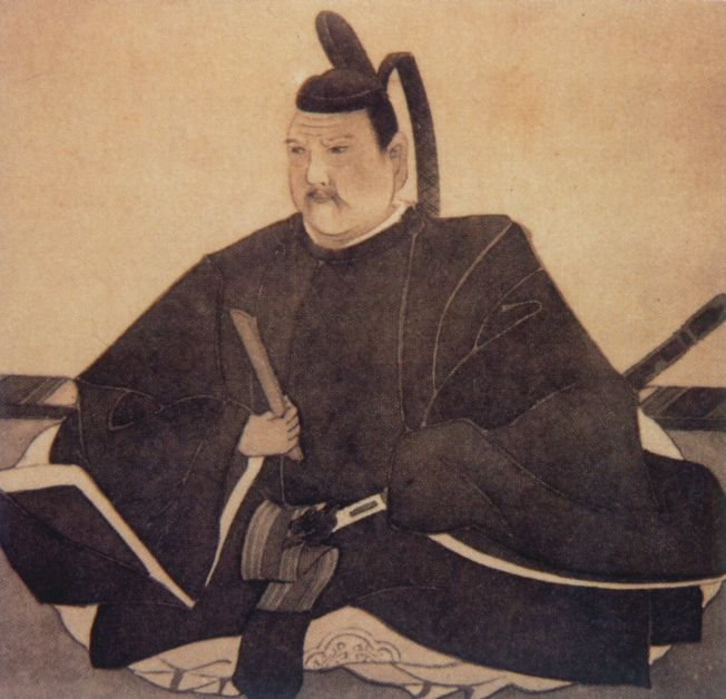 浅野長晟画像。日本の安土桃山時代から江戸時代にかけての大名。安芸広島藩初代藩主。 Asano Nagaakira (1586-1632) was a Japanese samurai of the early Edo period who served as daimyō of the Wakayama domain, and was later transferred to the Hiroshima Domain.